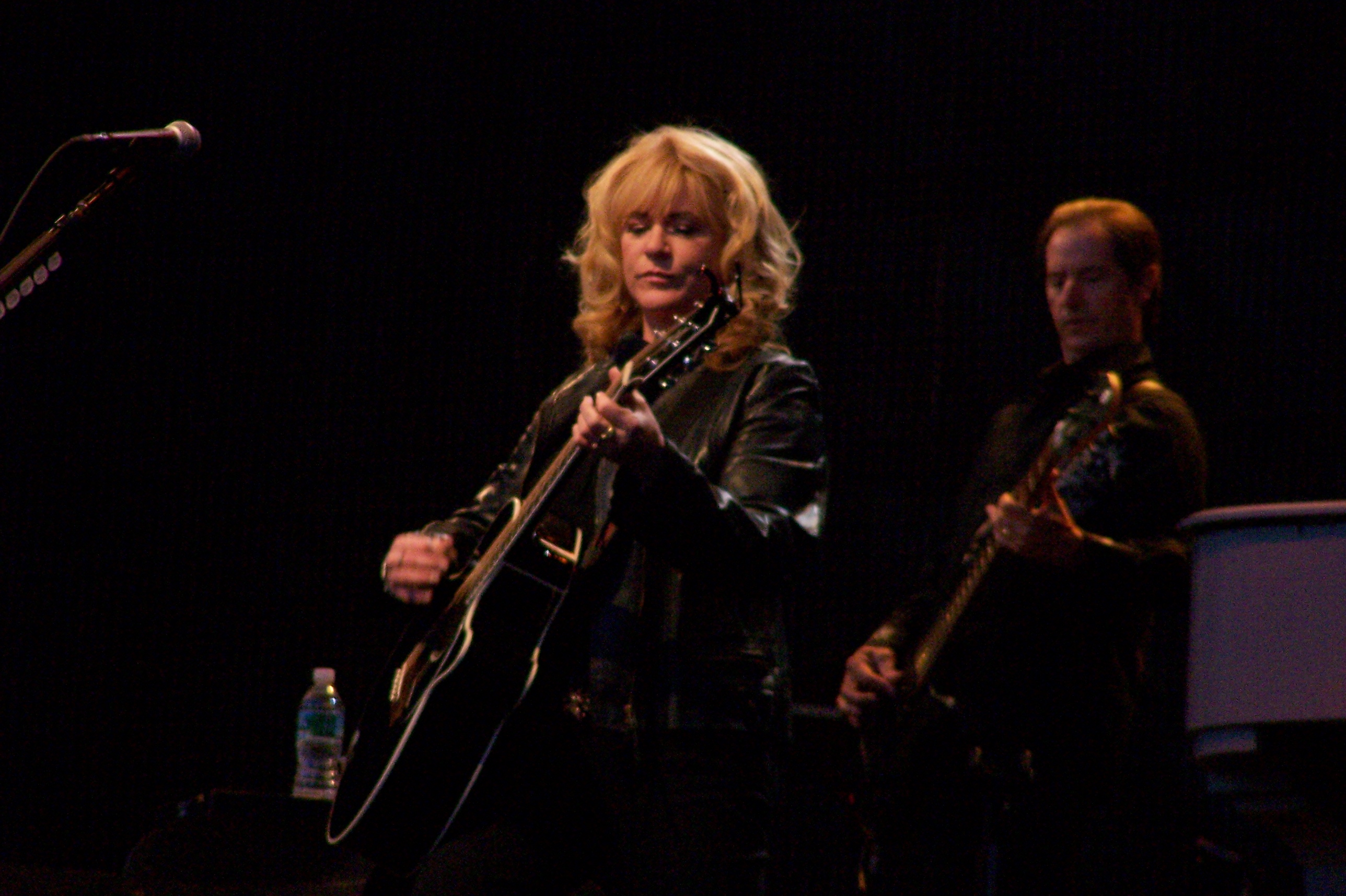 Soozie Tyrell playing with Bruce Springsteen's E Street Band during the Working on a Dream Tour, Estadio José Zorrilla, Valladolid, Spain